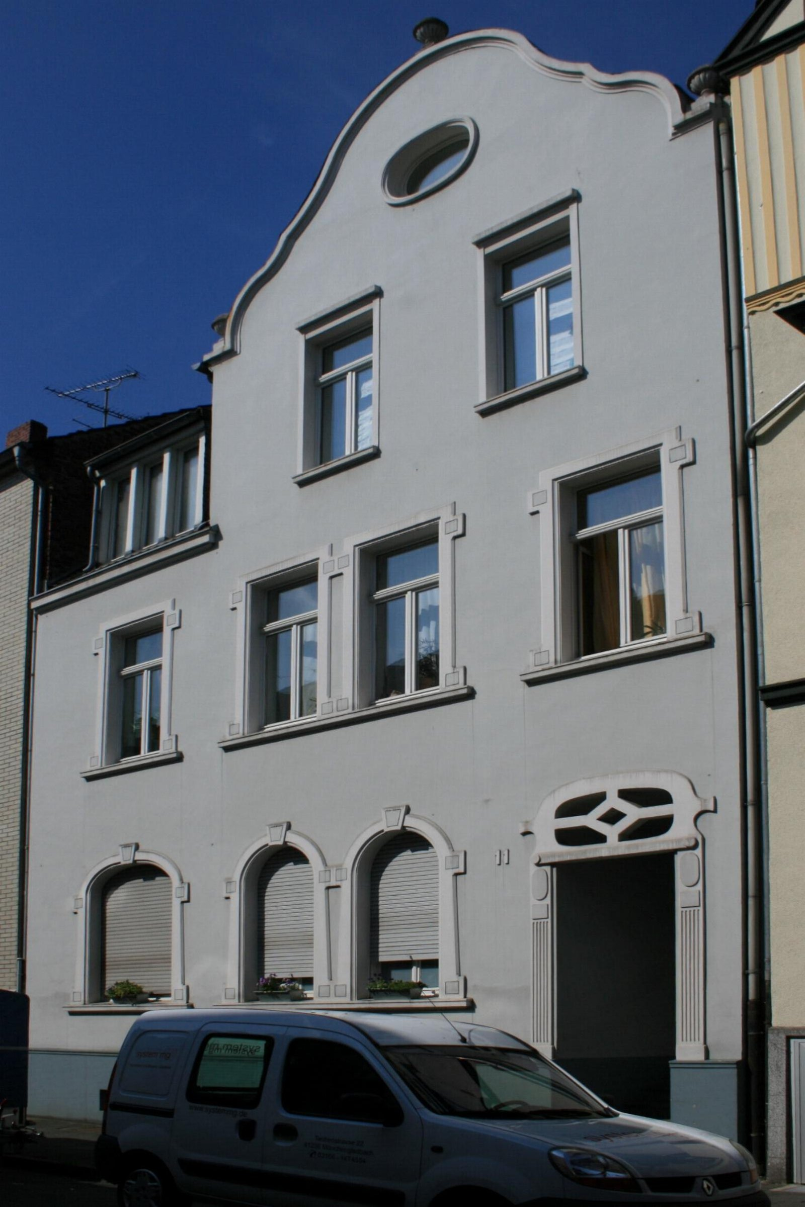 Cultural heritage monument No. T 004 in Mönchengladbach